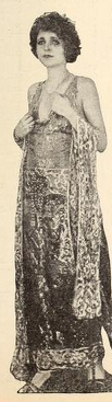 Mabel Ballin, in the American drama film Vanity Fair (1923), from a 1923 publication.